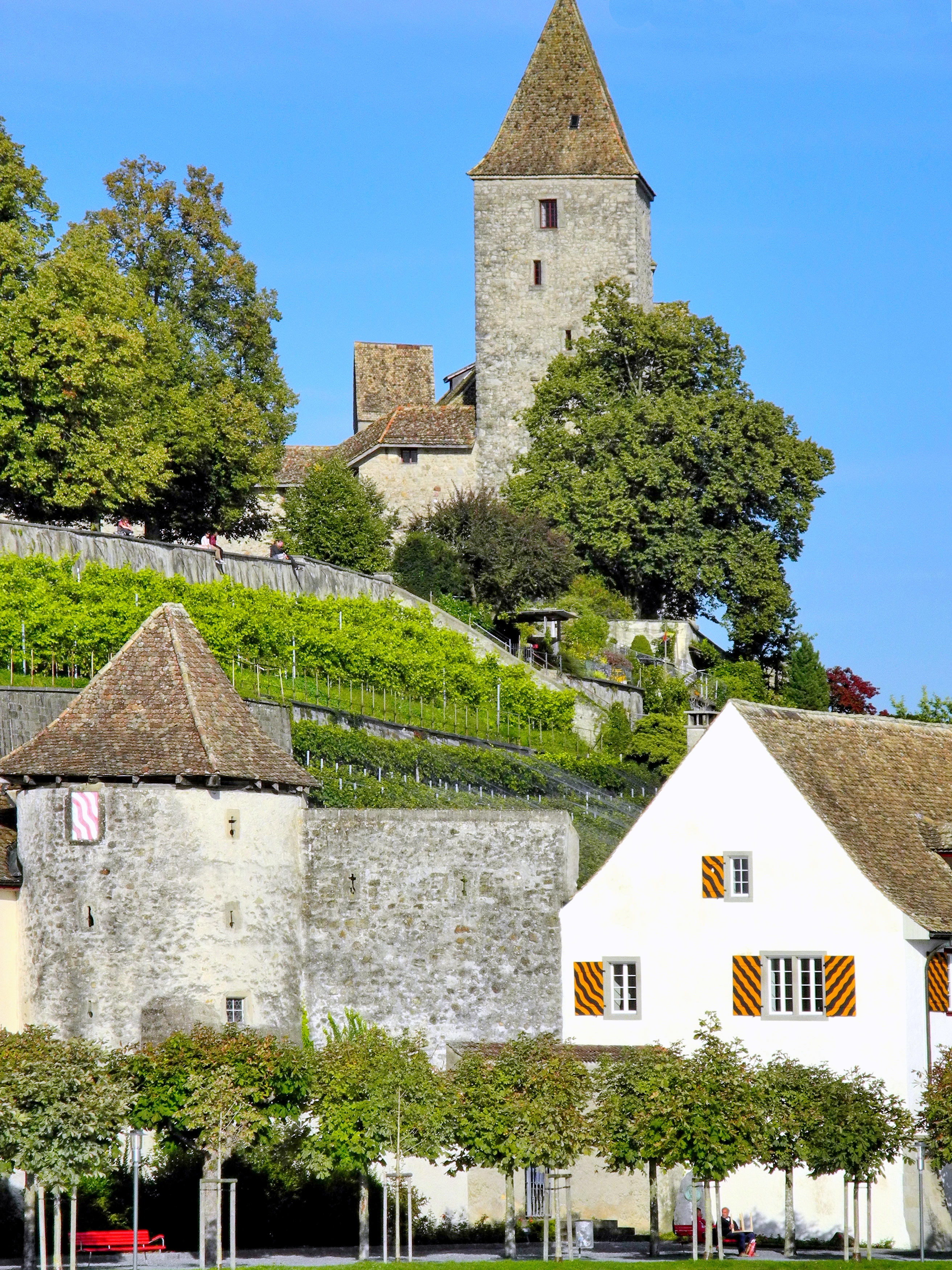 Rapperswil (Switzerland) : Lakeside fortifications, Lindenhof hill and the castle (Schloss) as seen from ZSG paddle steamship Stadt Rapperswil